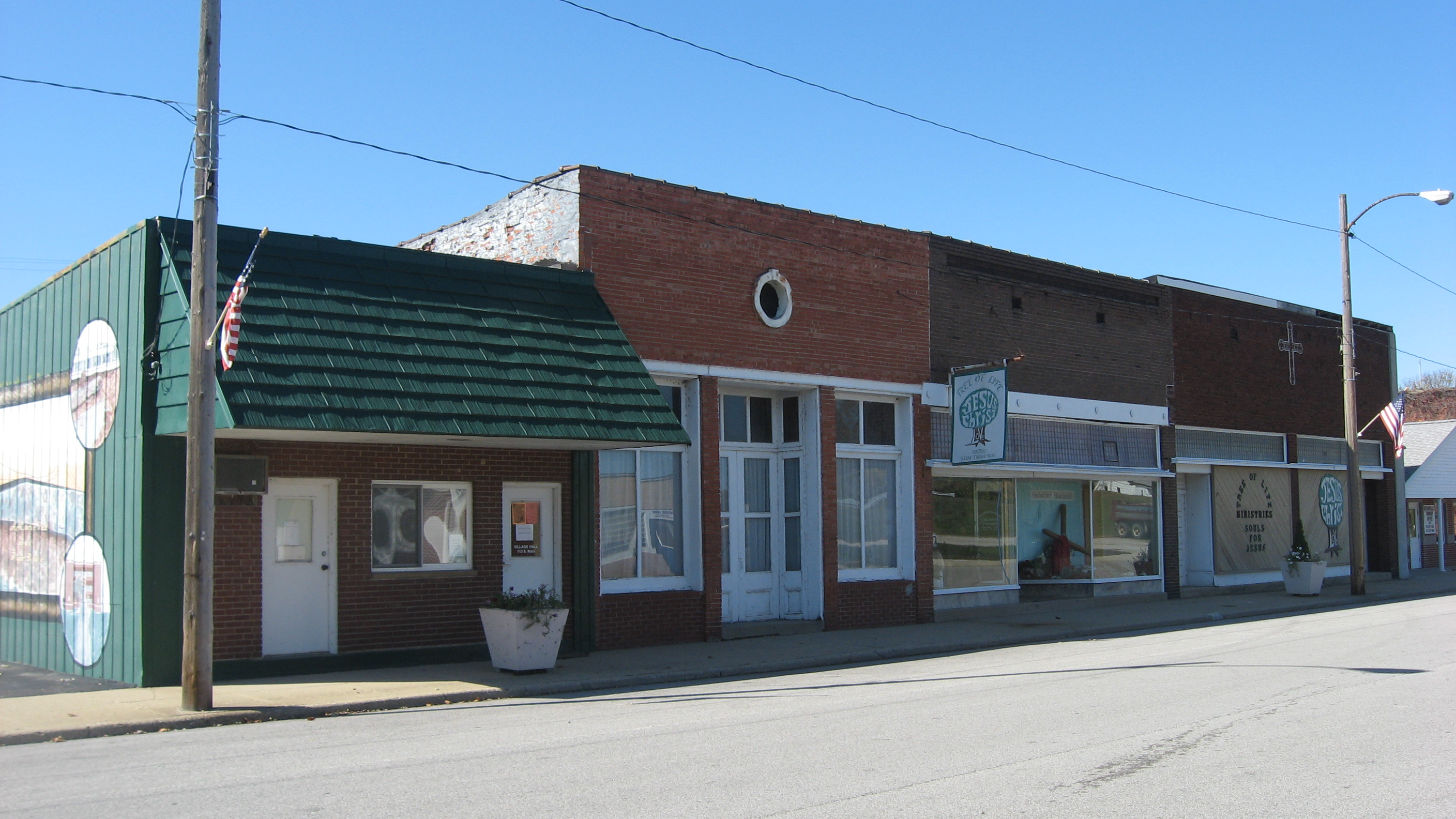 Buildings on the western side of the 100 block of S. Main Street in Hutsonville, Illinois, United States. From left to right, the buildings are (1) Village Hall; (2) Unidentified; (3) Tree of Life Ministries [a church]; (4) Tree of Life Ministries.